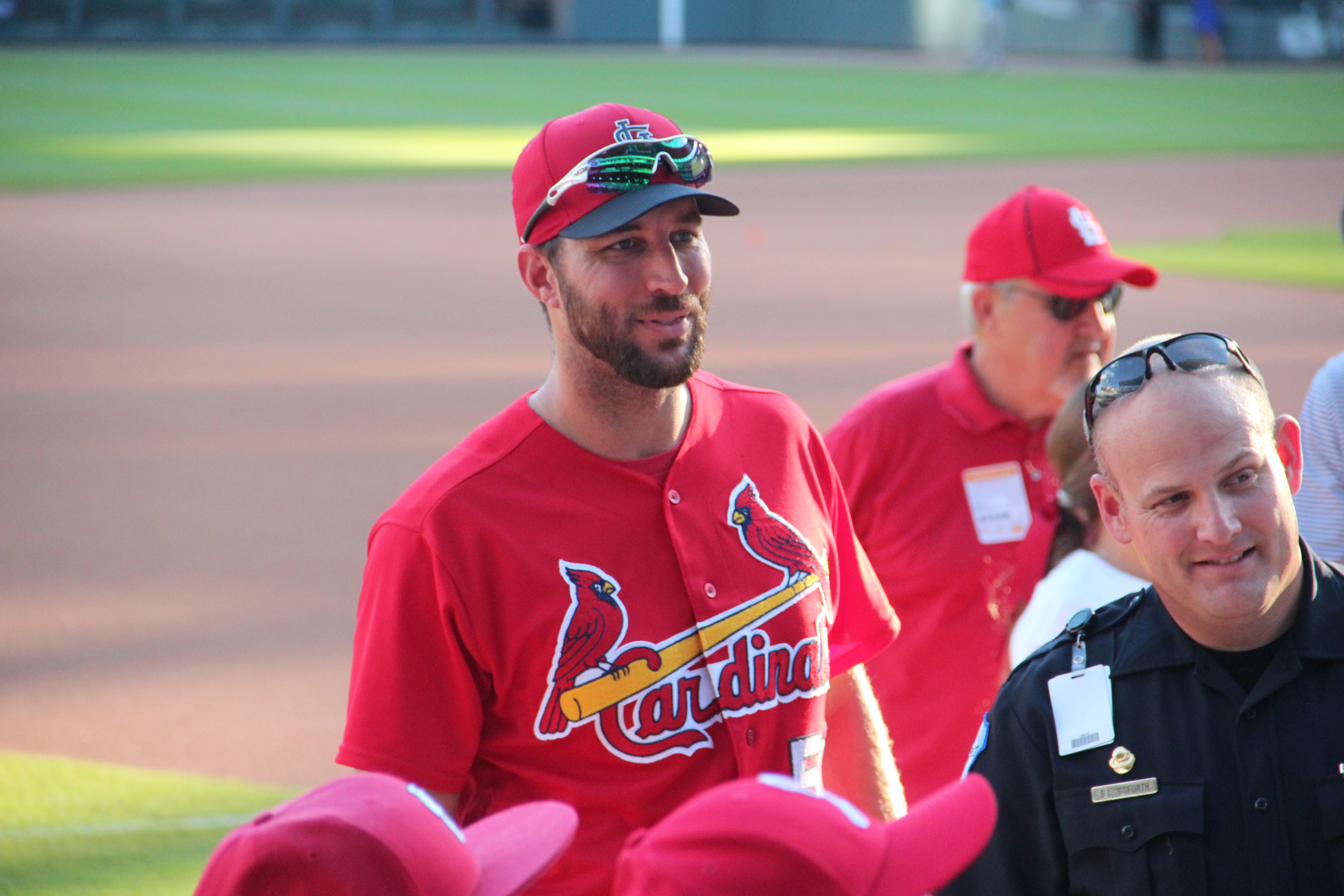 Adam Wainwright at Suntrust Park, September 18, 2018